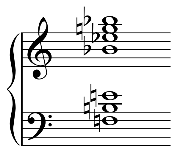 A Viennese trichord as a part of 6-z17, embellishing the first (C7) chord, from Bill Evans' opening to "What Is This Thing Called Love?".